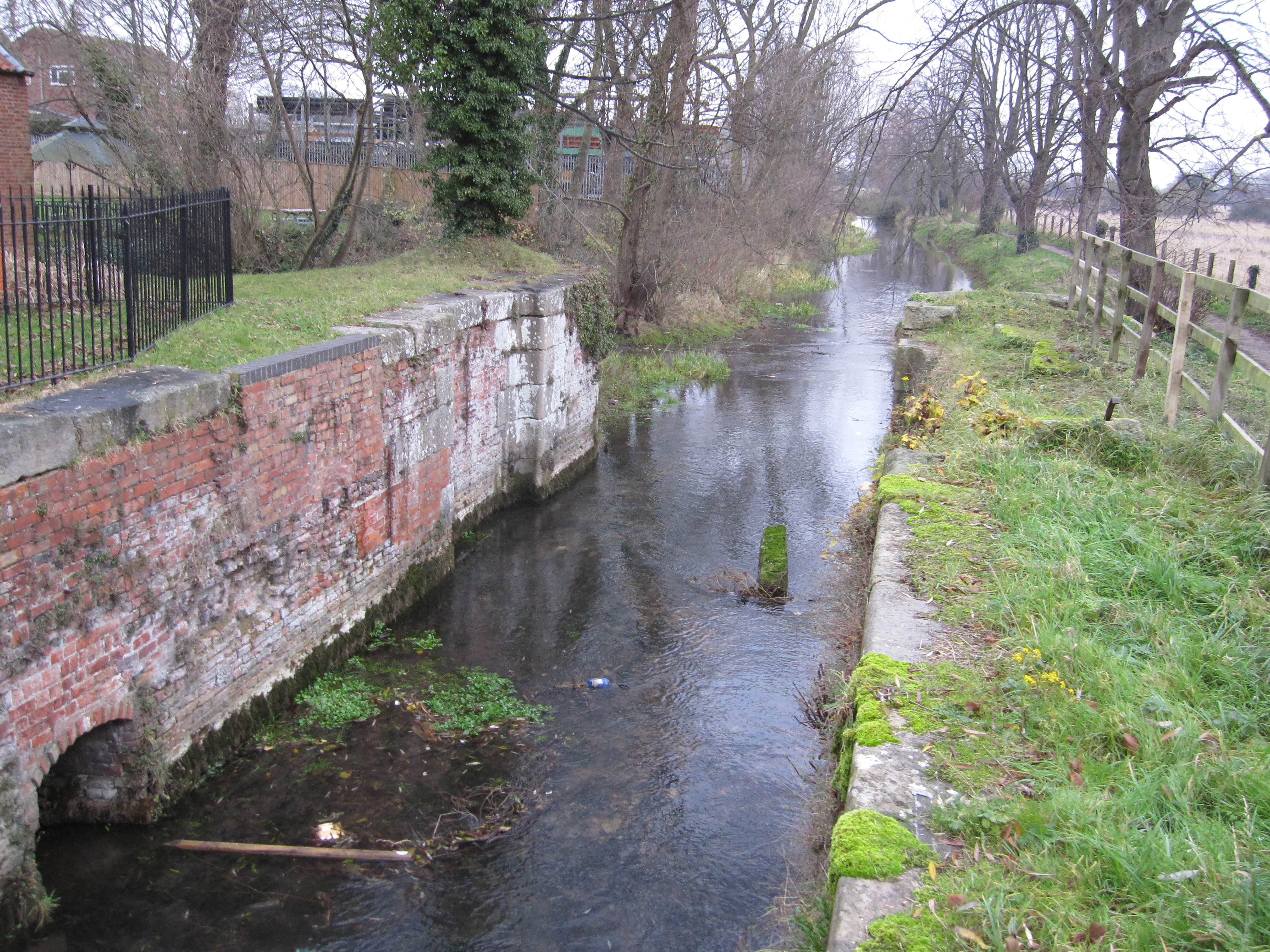 Cogglesford Mill, on the river Slea near Sleaford. Remains of the lock constructed for the Navigation of the river. The upstream lock gate has been replaced by a weir